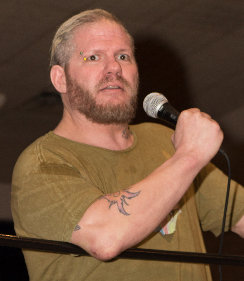 Professional wrestler Raven in March 2013.